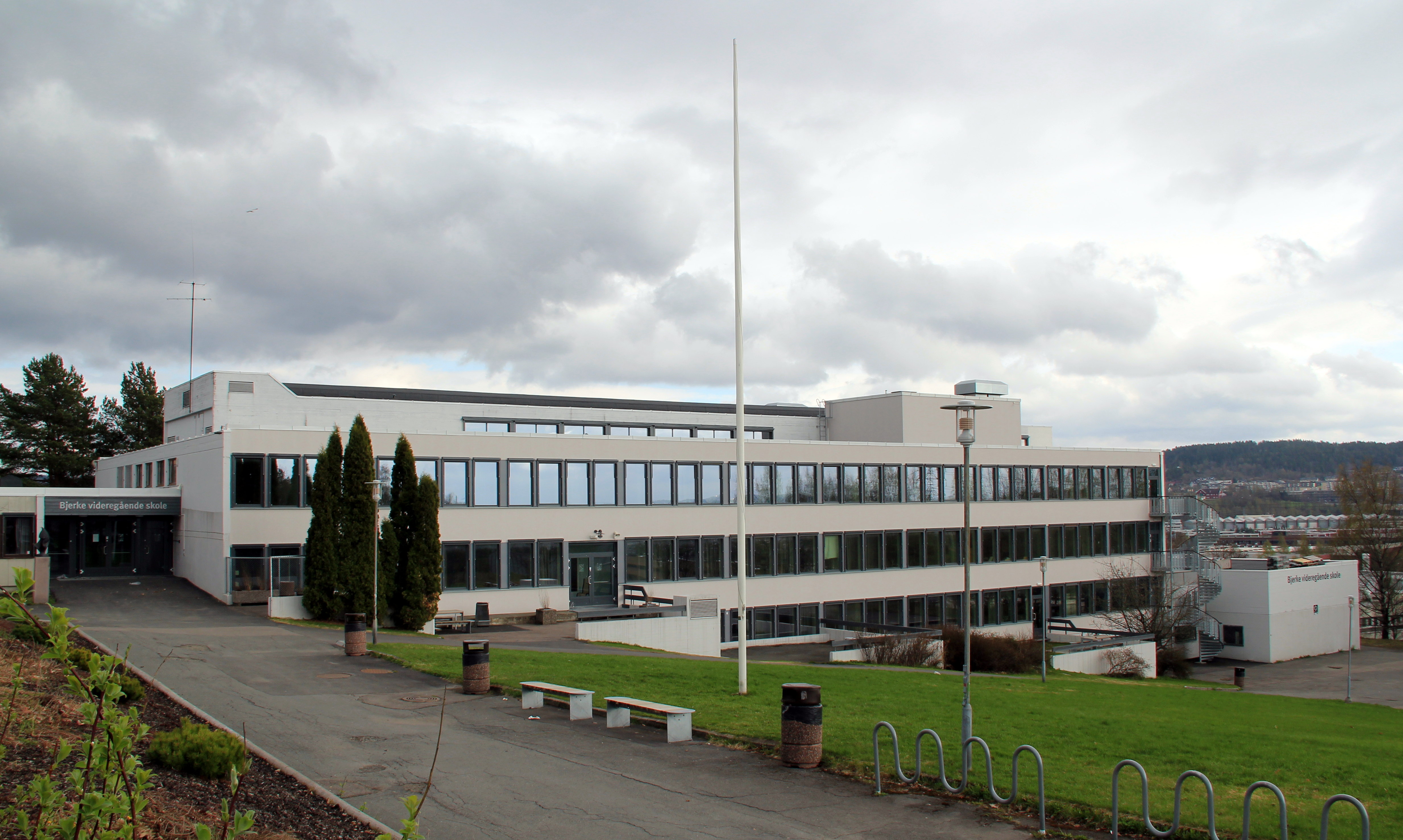 Bredtvet videregående skole, Upper secondary school, Oslo, Norway - The building acting as temporary school for Bjerke videregående skole